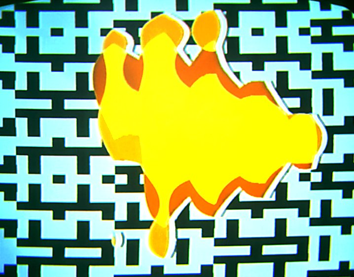 Richard Monkhouse “Image produced by Spectre videosynthesizer In the UK Richard Monkhouse working for EMS developed a hybrid video synthesiser — Spectre — later renamed 'Spectron' which used the EMS patchboard system to allow completely flexible connections between module inputs and outputs. The video signals were digital, but they were controlled by analog voltages. There was a digital patchboard for image composition and an analog patchboard for motion control.” —“Video synthesizer on en.wikipedia Further reading SPECTRE Color Video Synthesizer. Video Synthesizers, Tool Shack. Inc..